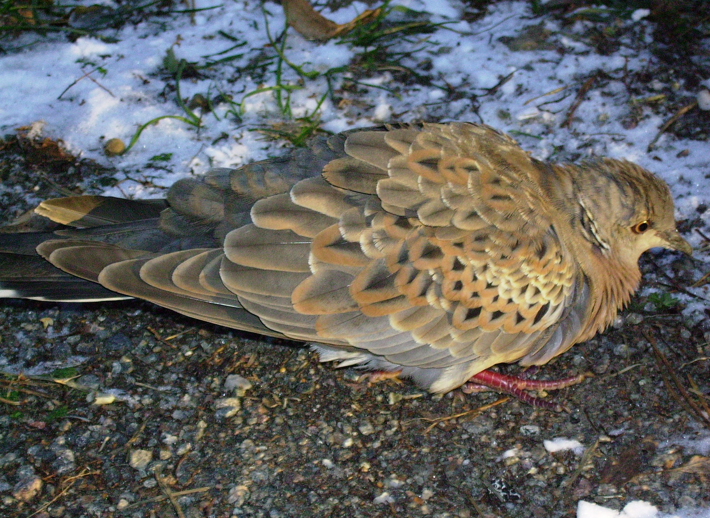 Turtle Dove